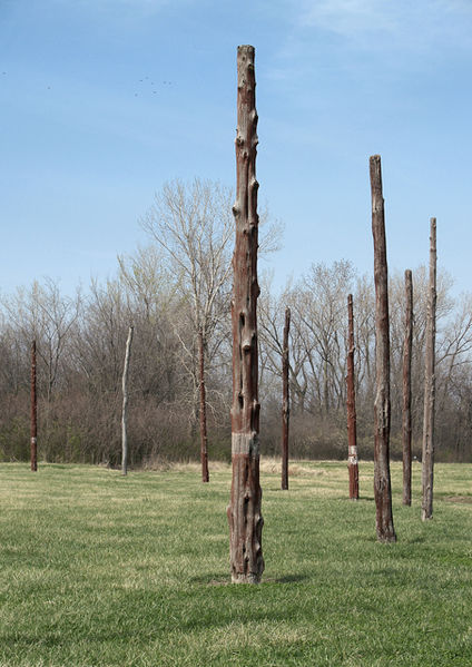 Photo by Nathaniel Paluga of the reconstructed American Woodhenge at Cahokia